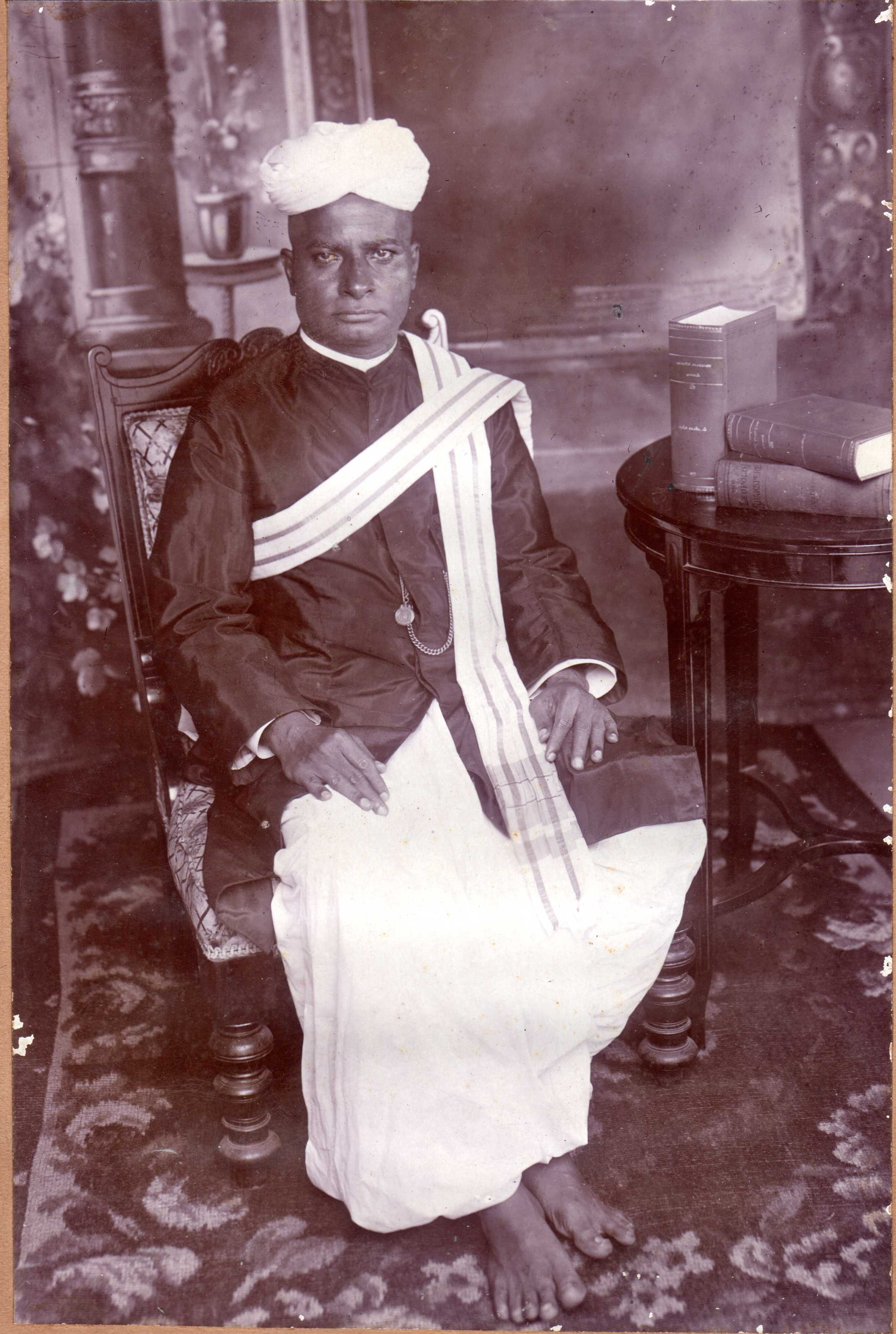 G. Krishnaswamy Iyer was the last Diwan of Pudukootrai. Lived at 2628, East Main Street